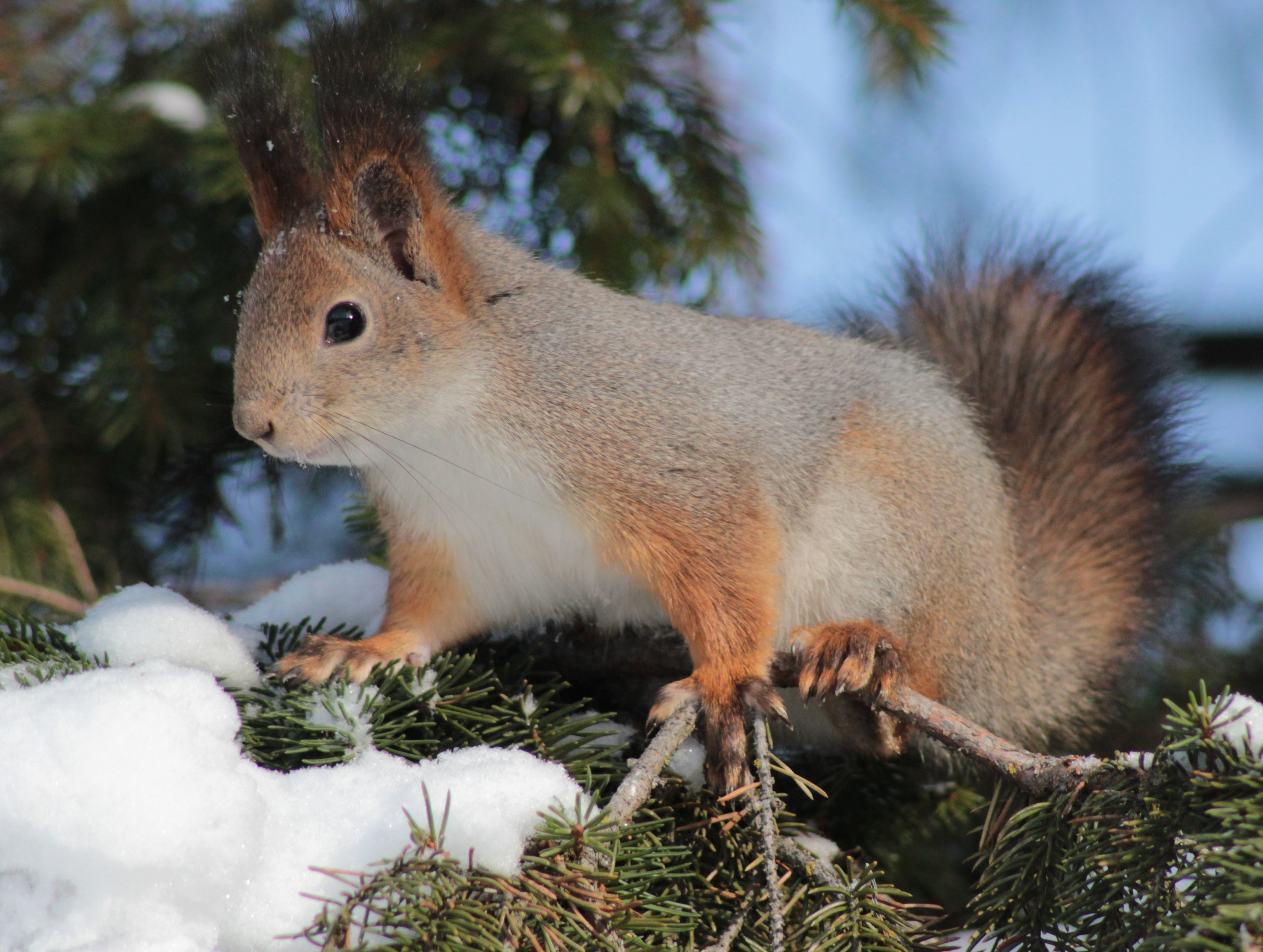 A red squirrel (Sciurus Vulgaris) in Hupisaaret Park in Oulu.